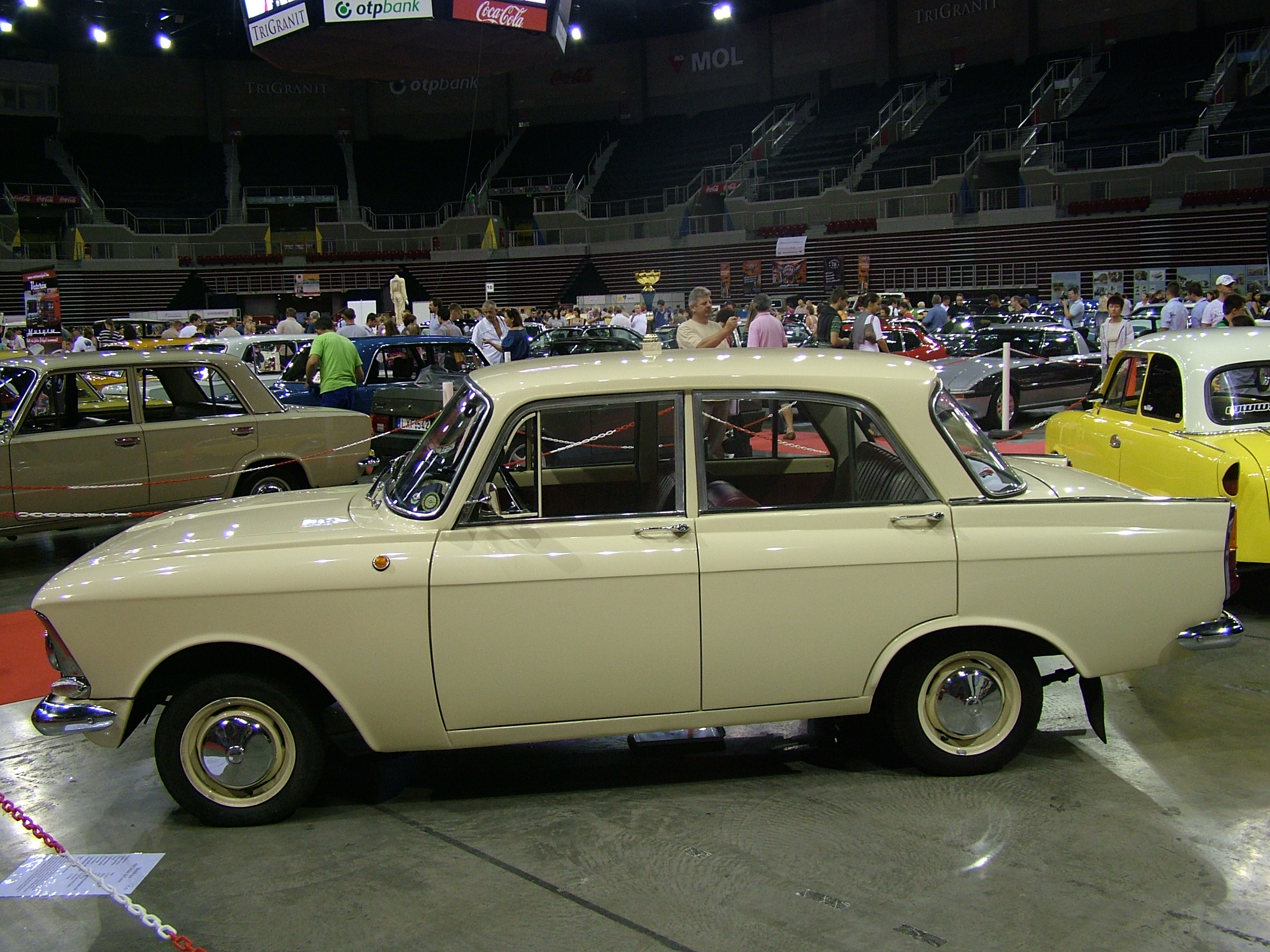 Moskvitch 408 Sedan de luxe, produced in 1968, at the I. International Oldtimer and Youngtimer Festival, Budapest, 2011.